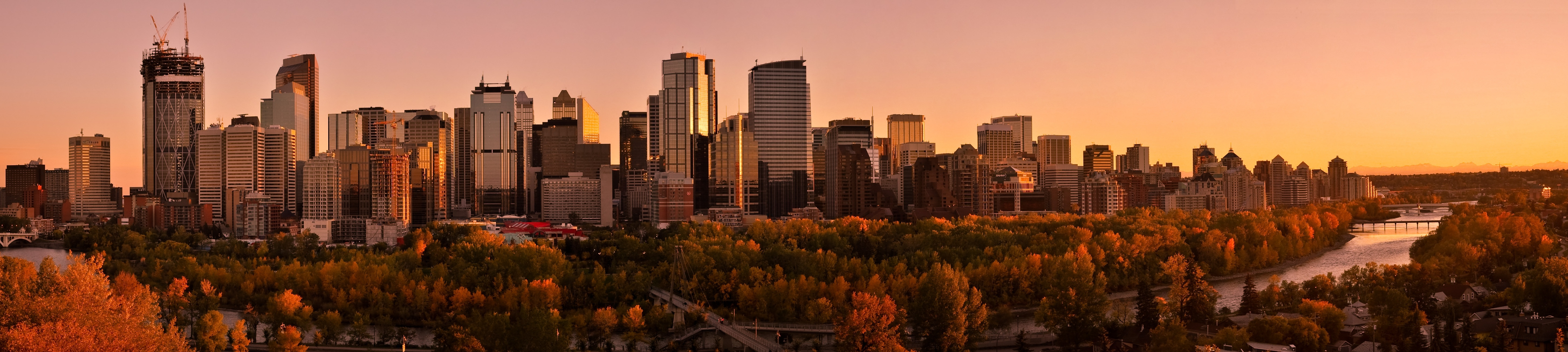 View of downtown Calgary, Canada, as seen from Crescent Heights bluff during sunset.